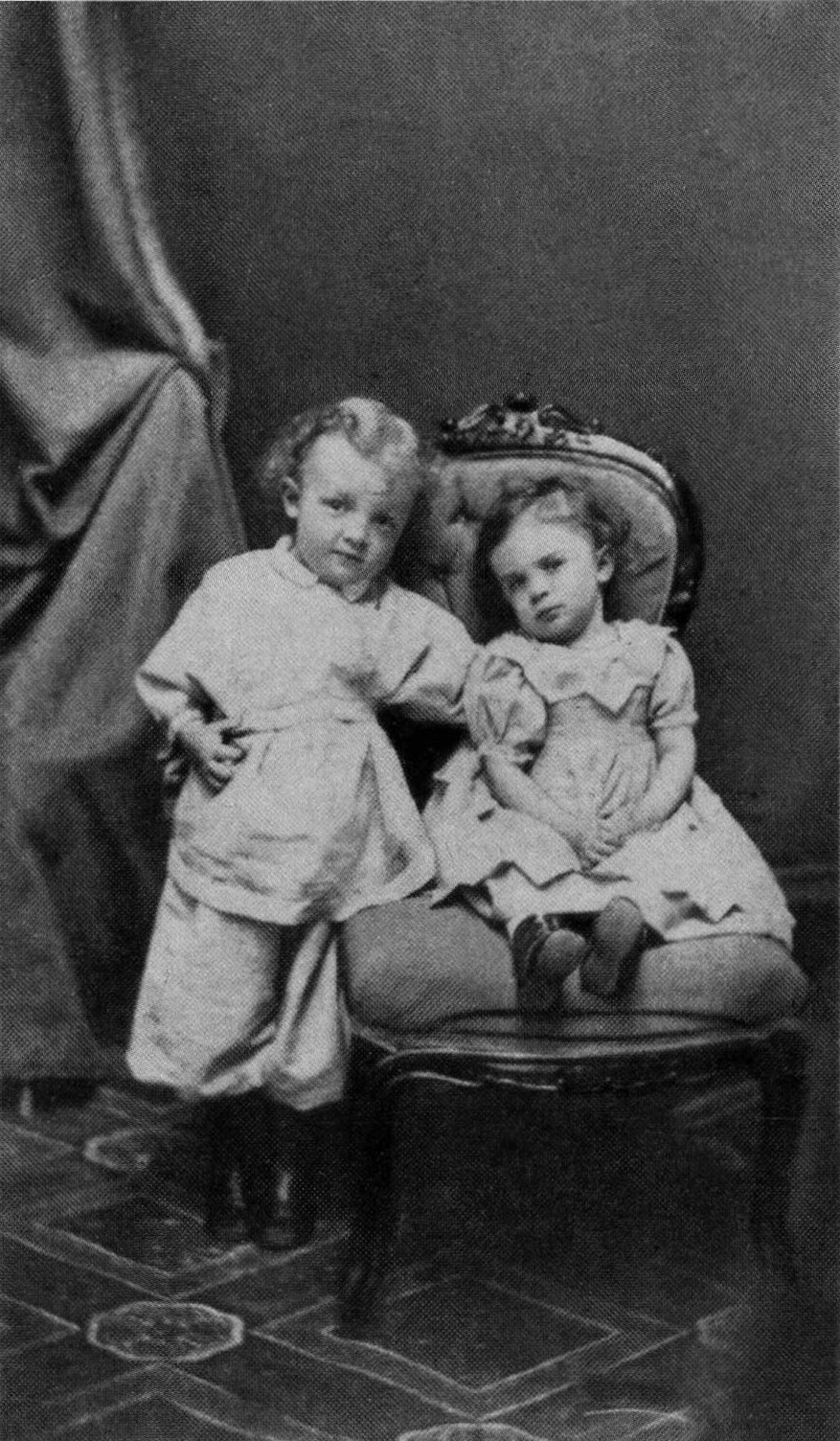 4-years-old Vladimir Ulyanov and his sister Olga. Simbirsk